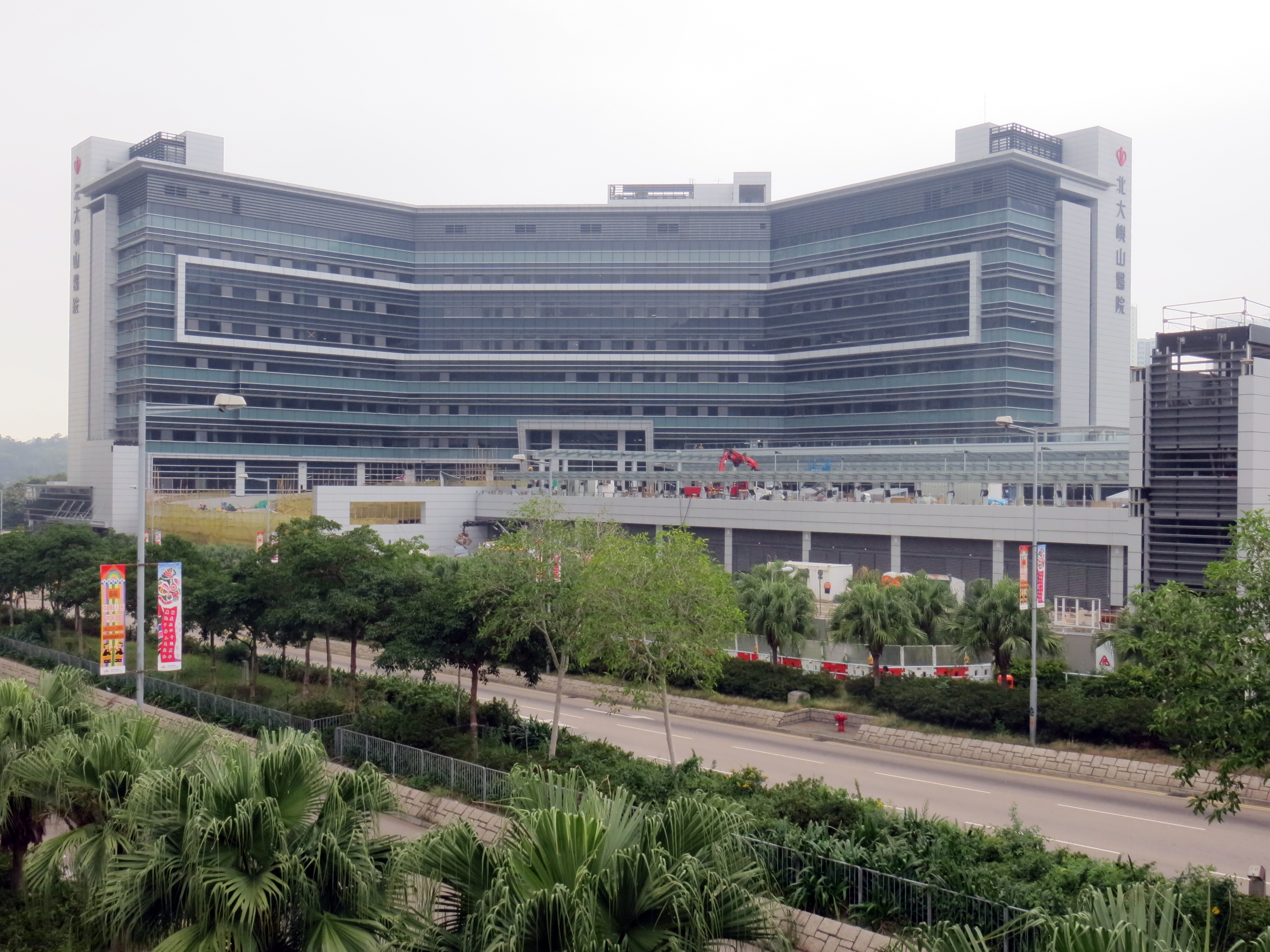 North Lantau Hospital, Tung Chung, Lantau Island, Hong Kong. (Nov 15, 2012)